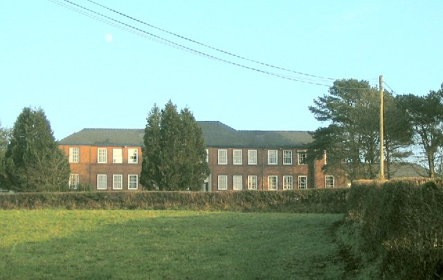 Mynydd Mawr Hospital. This small hospital sits just alongside the main road from Tumble to Llannon. It is right next to Upper Tumble public cemetery. I think building hospitals next to cemeteries demonstrates a slightly defeatist attitude.